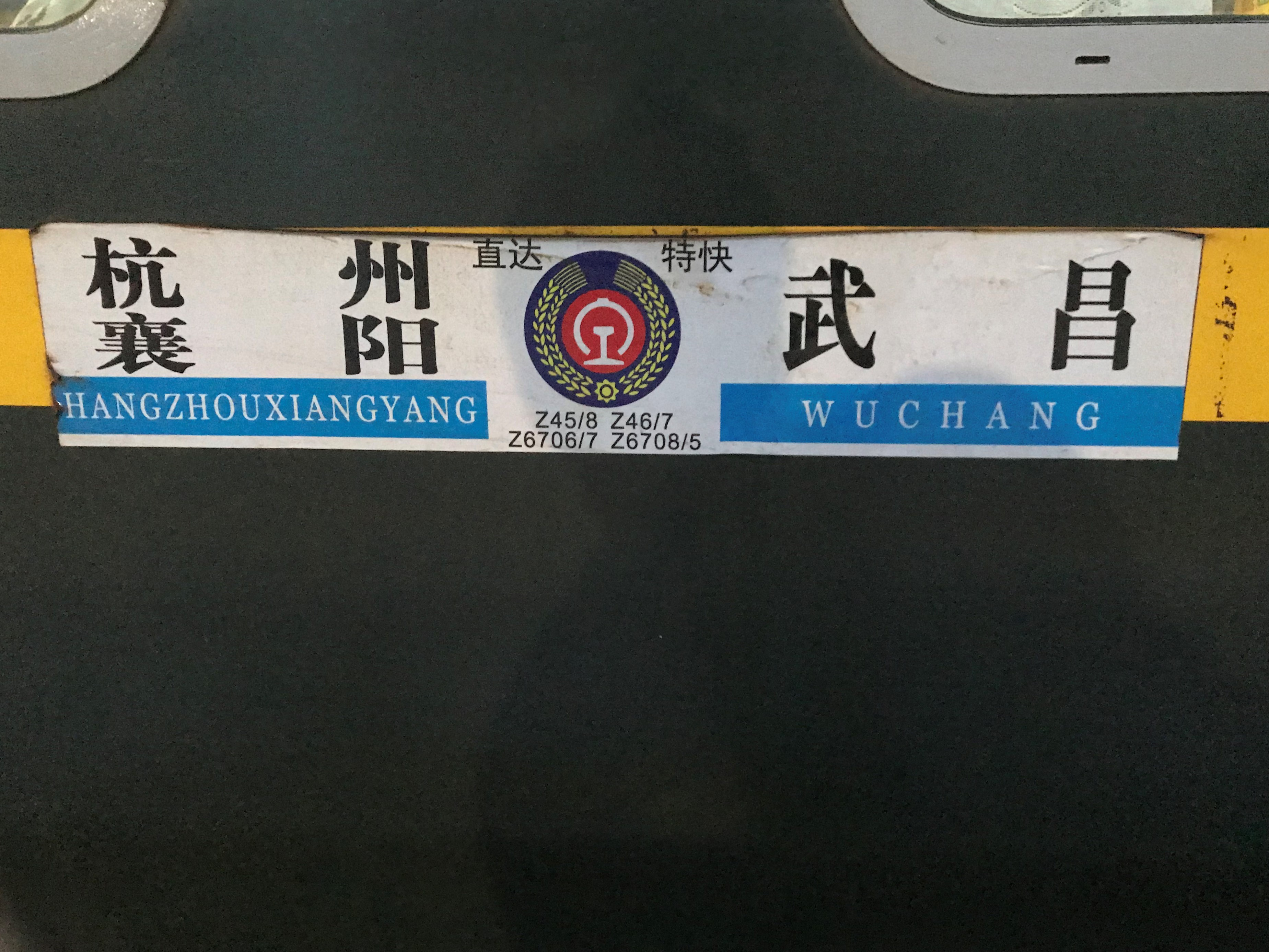 Hangzhou to Wuchang to Xiangyang Train